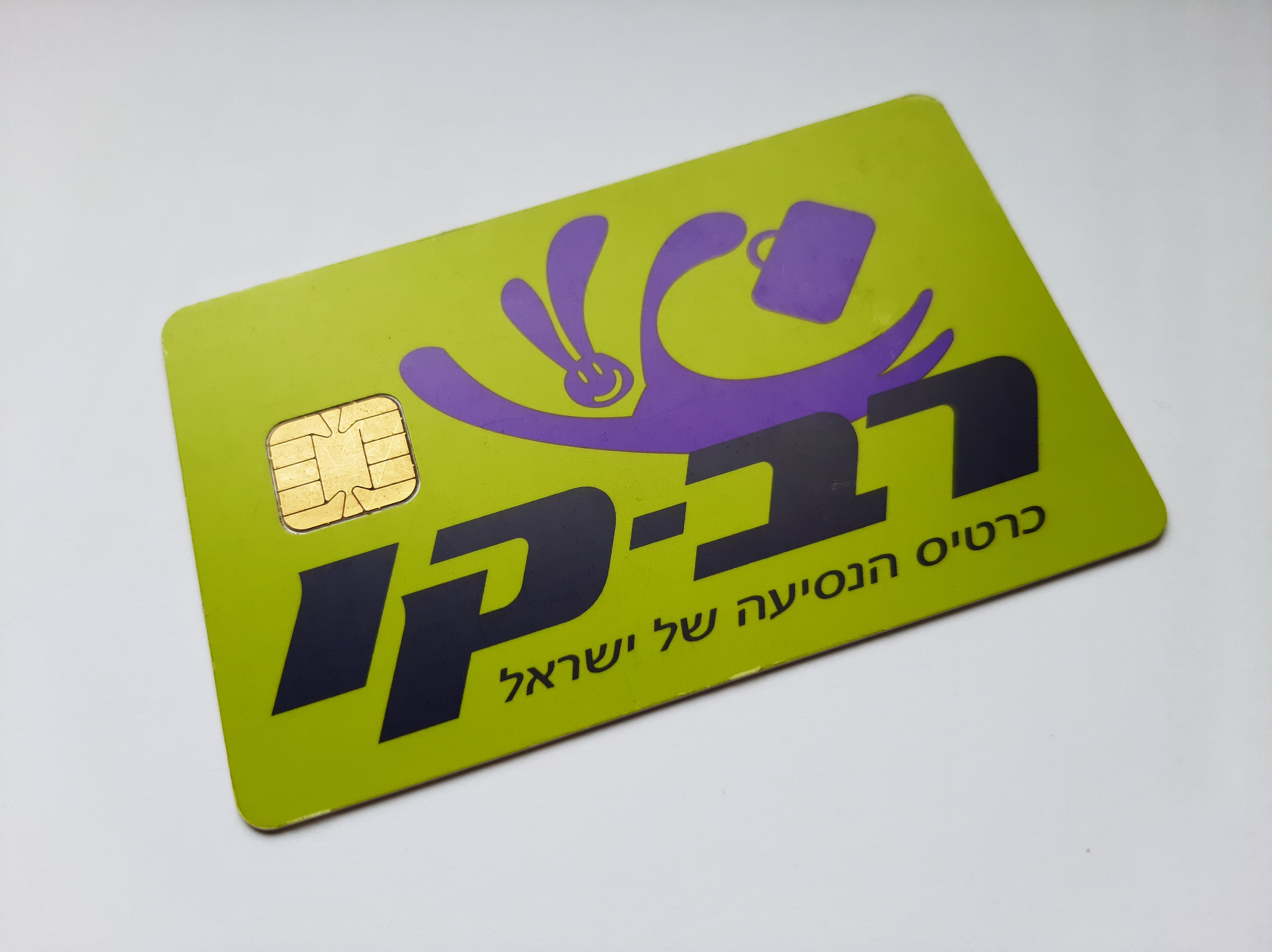 Rav Kav